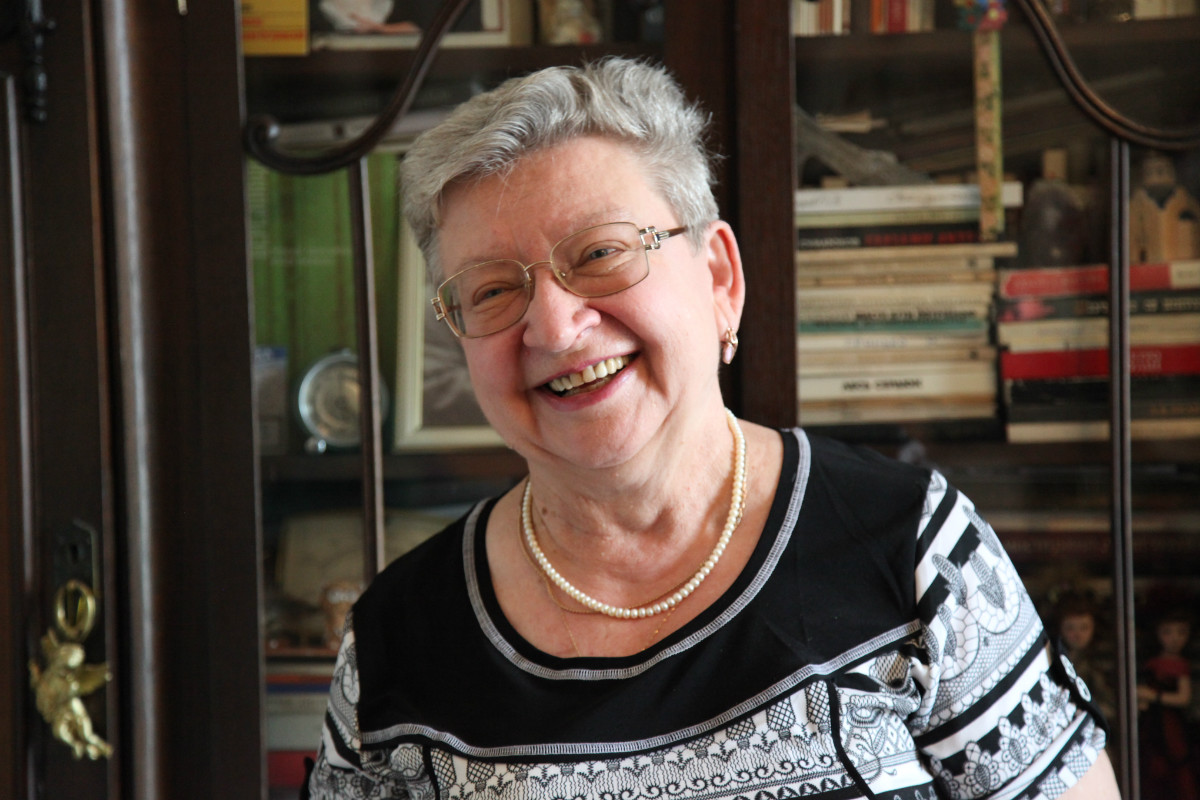 Zabolotna, Valentina Igorevna